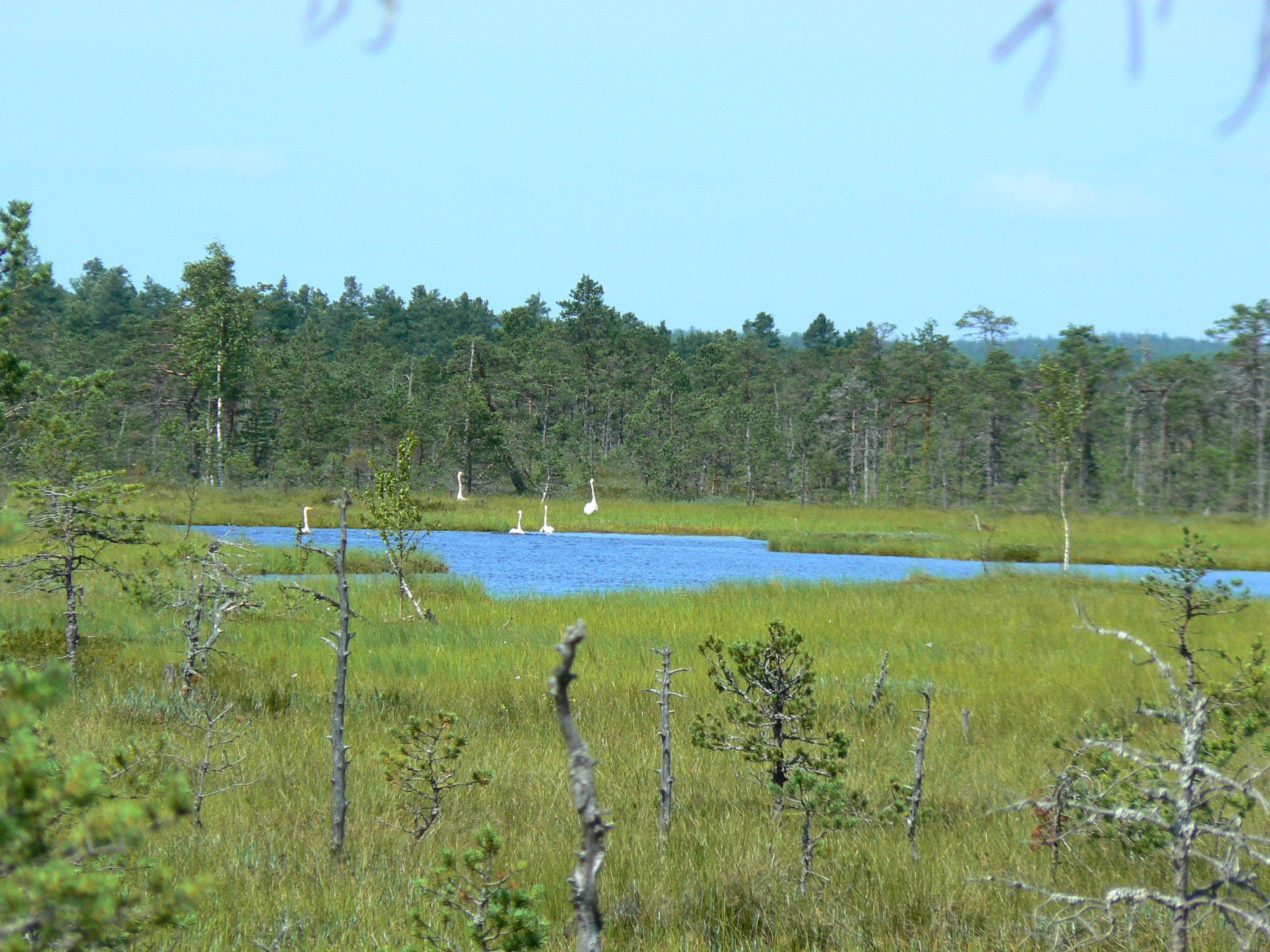 Swans (Cygnus cygnus) in Rubina swamp, in Estonia